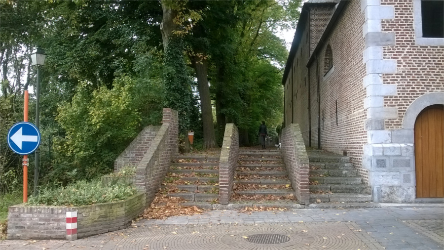 Remnants of the former ramparts around Maaseik